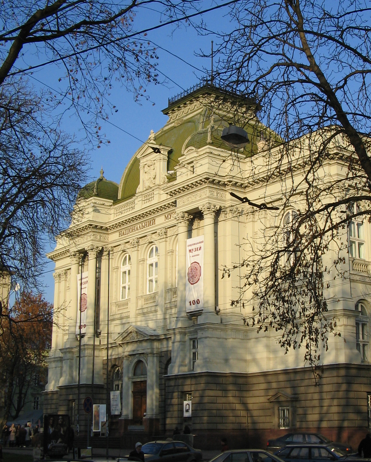 Lwow Industrial Museum (now Lviv National Museum)